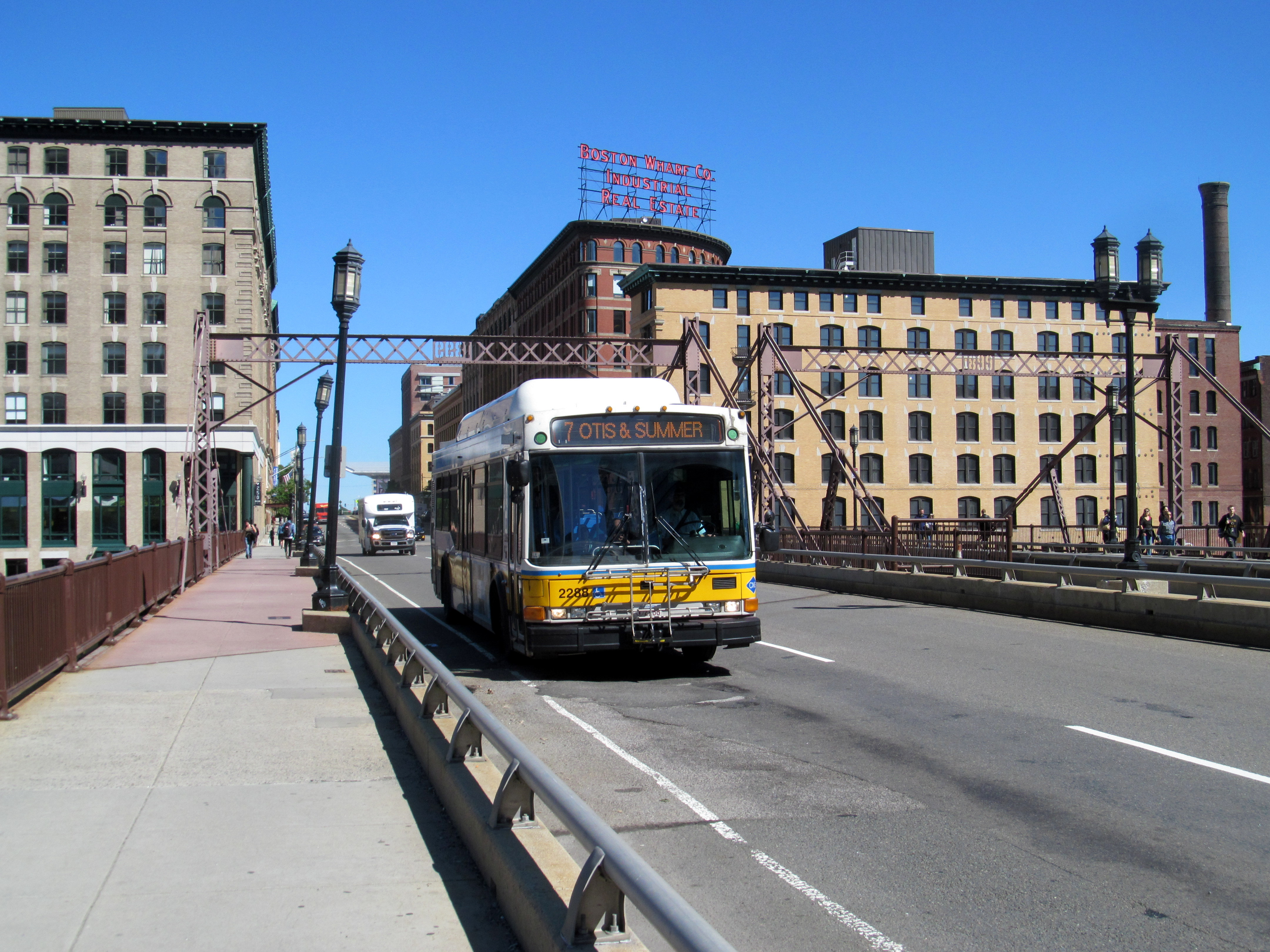 MBTA route 7 bus on the Summer Street bridge in June 2017. On November 7, 1916, a streetcar on the ancestor of the #7 route plunged off the movable section of the bridge (behind the bus in this photo), killing 46 people.